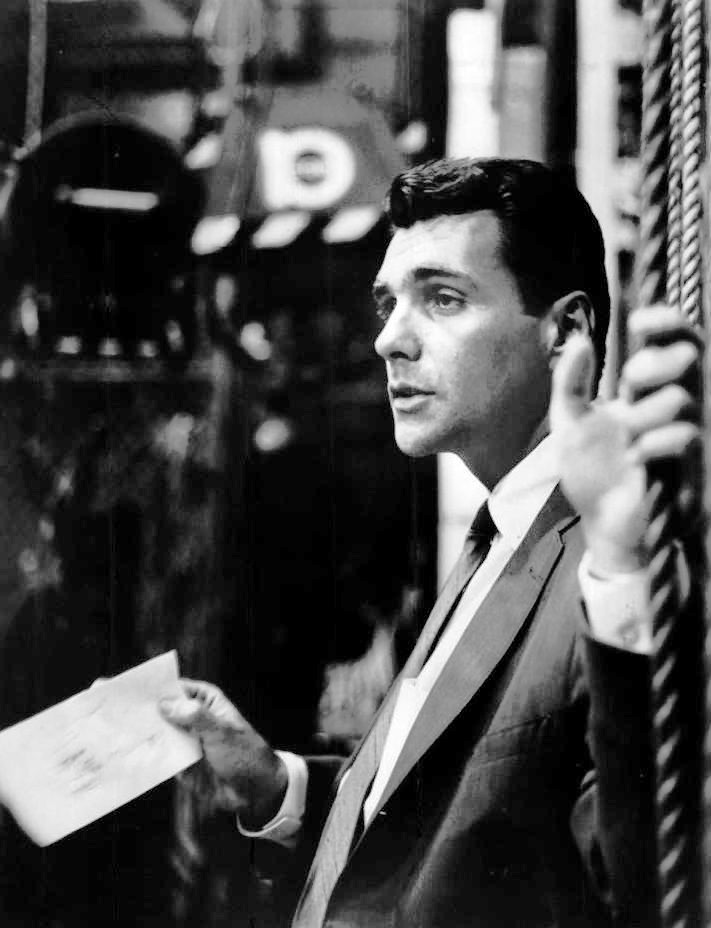 Photo of television and radio personality Les Crane from his television talk progam The Les Crane Show.